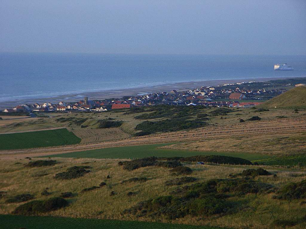 View of Sangatte Blériot Plage from Cap Blanc-Nez